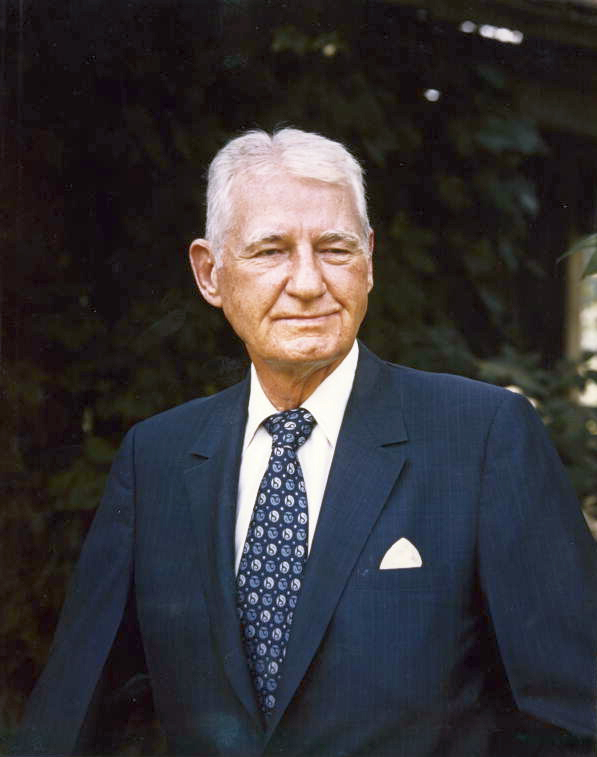 Former Gov. Millard F. Caldwell, Florida